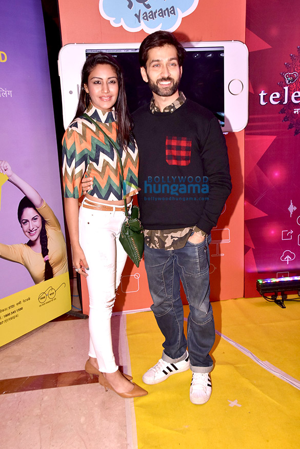 Surbhi Chandna in an event of Saas Bahu Aur Saazish.